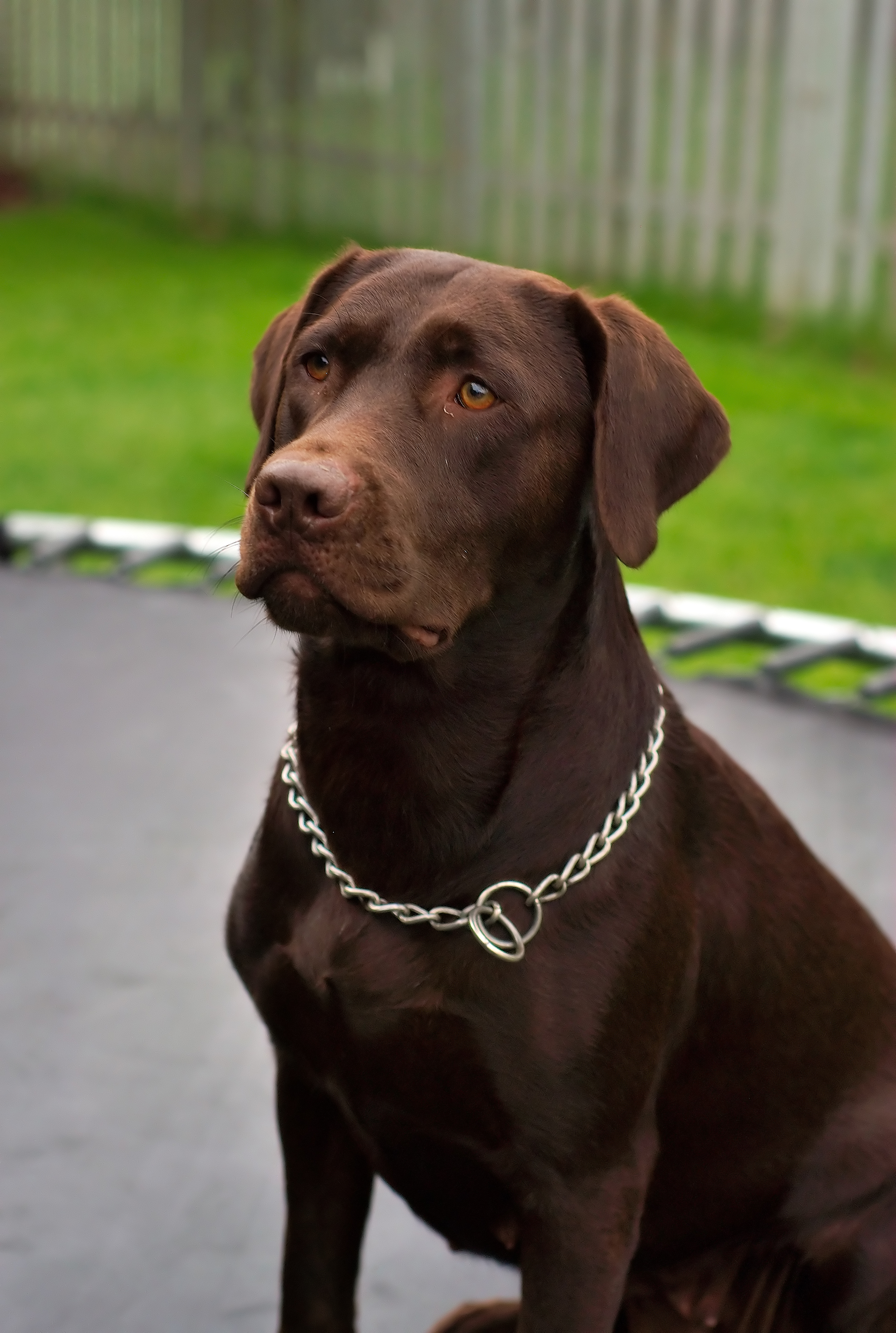 A chocolate Labrador Retriever named Hershey.